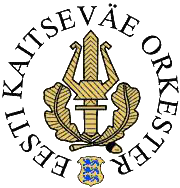 The logo of the Estonian Defence Forces Orchestra.